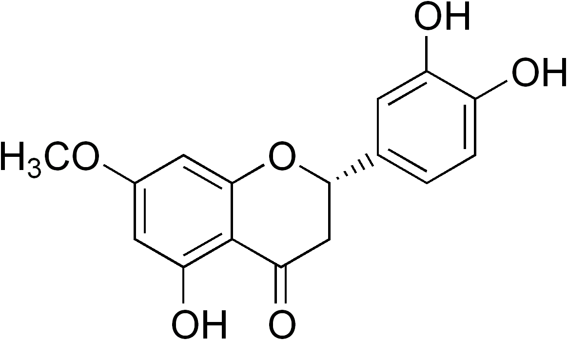 chemical structure of sterubin